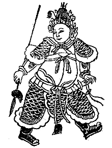 An illustration of Gao Huaide from an 18th century novel print.